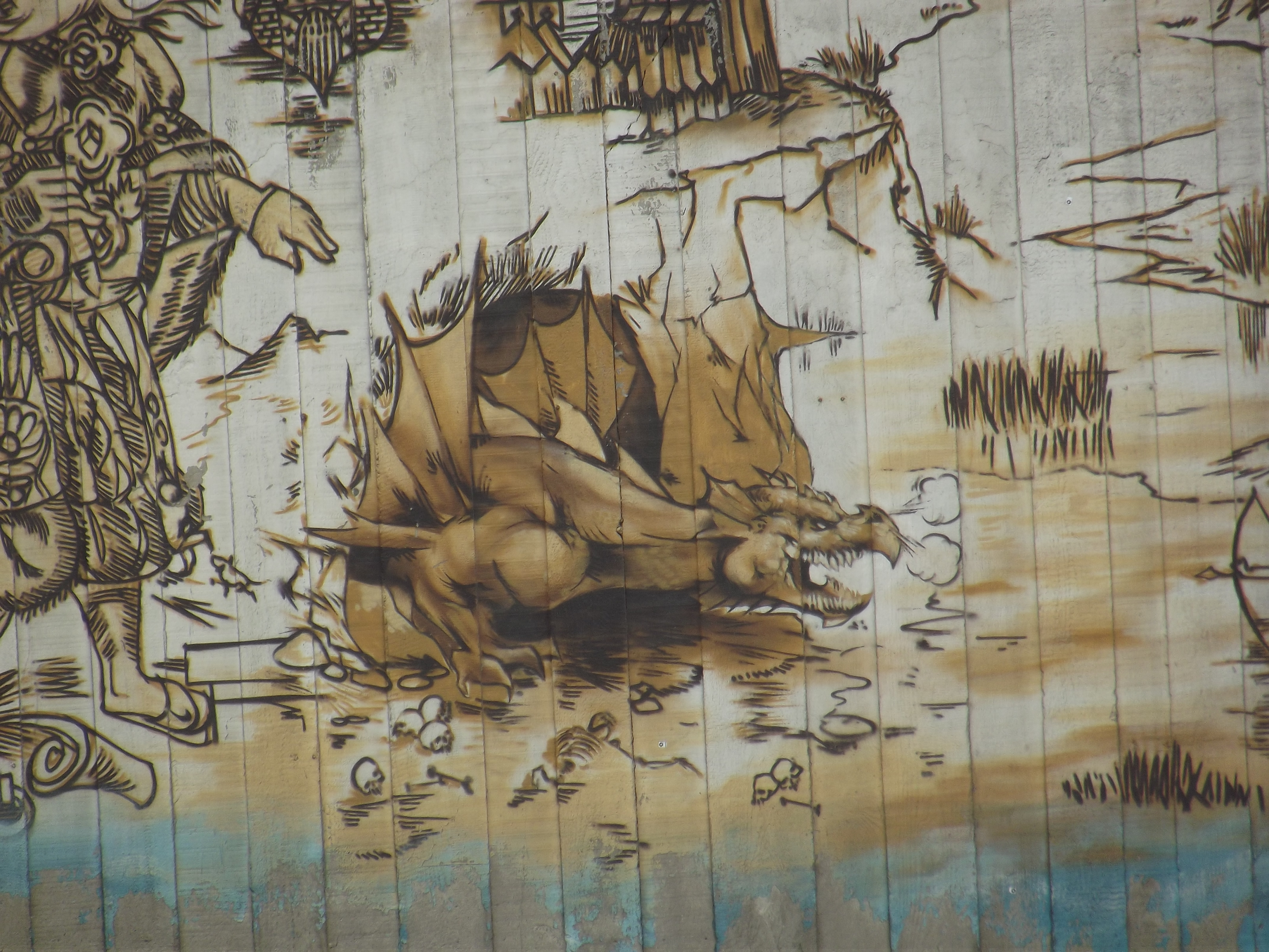 Detail from the mural Silva Rerum in Cracow: a Wawel Dragon.